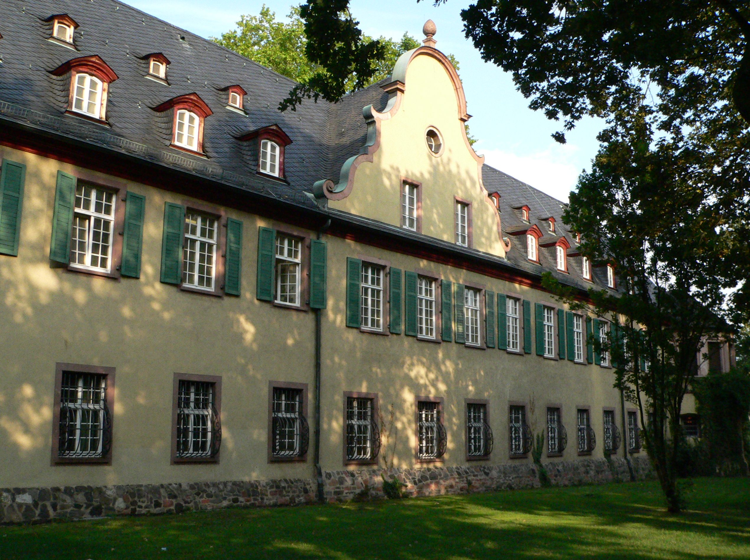 New Castle in Frankfurt-Höchst, western facade seen from the Brüningpark